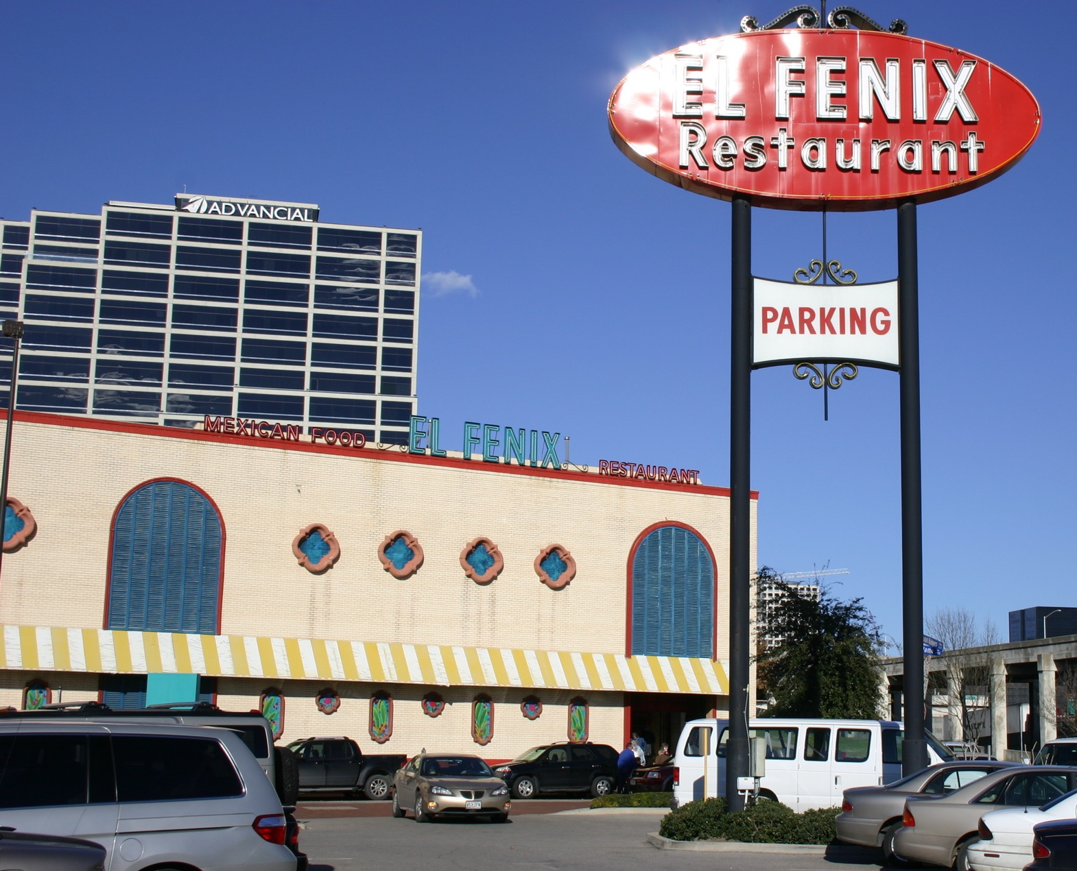 Photo of El Fenix, downtown Dallas location